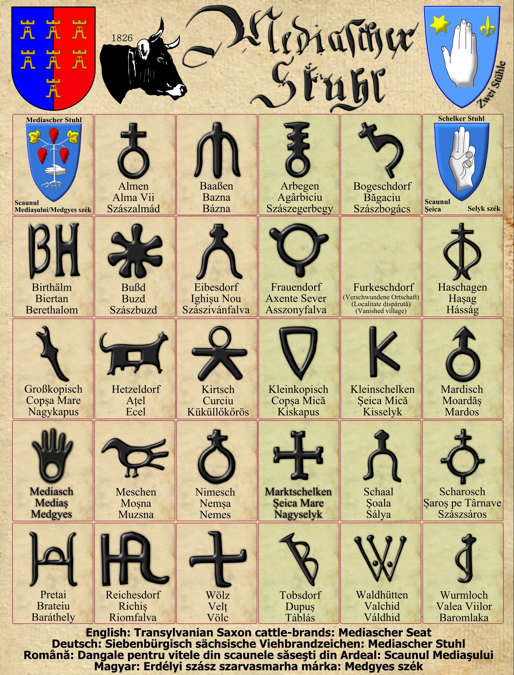 Cattle brands from Mediascher Sthuls Seat, 1826